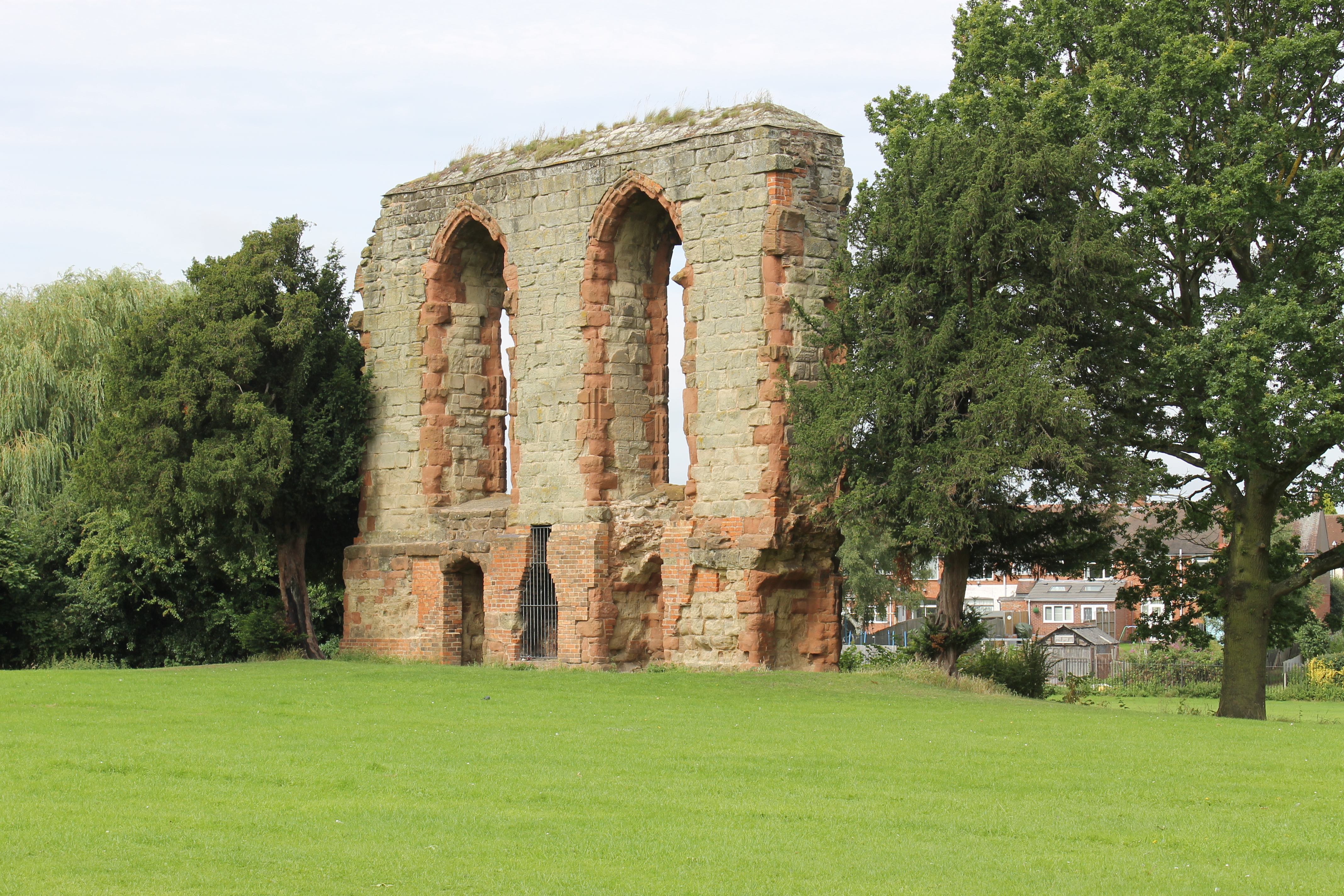 N1 - Caludon Castle in Coventry, UK